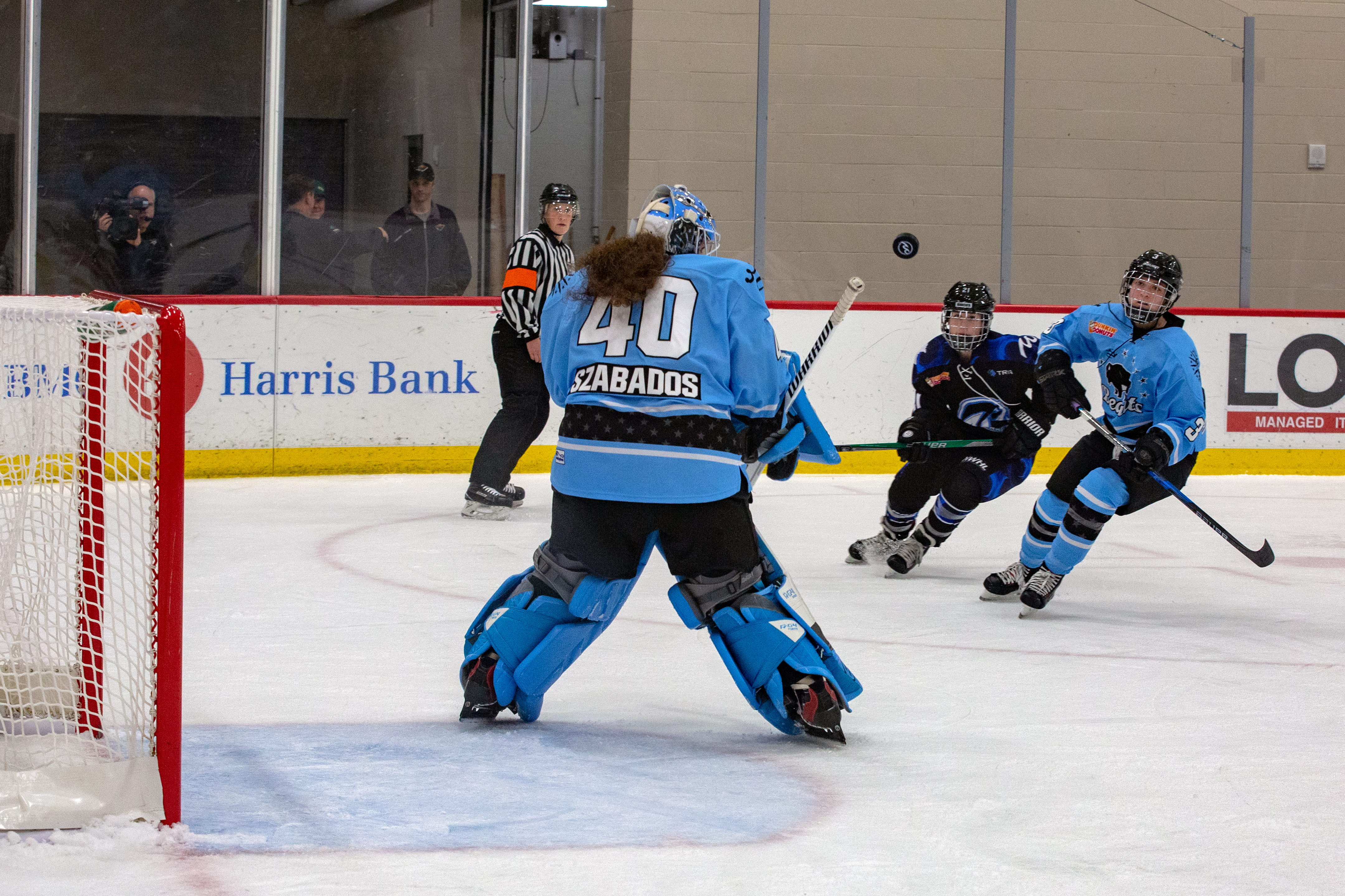 Minnesota Whitecaps Amy Menke (21) takes a shot at the goal with Buffalo Beauts goalie Shannon Szabados (40) and Sarah Edney (3) defending